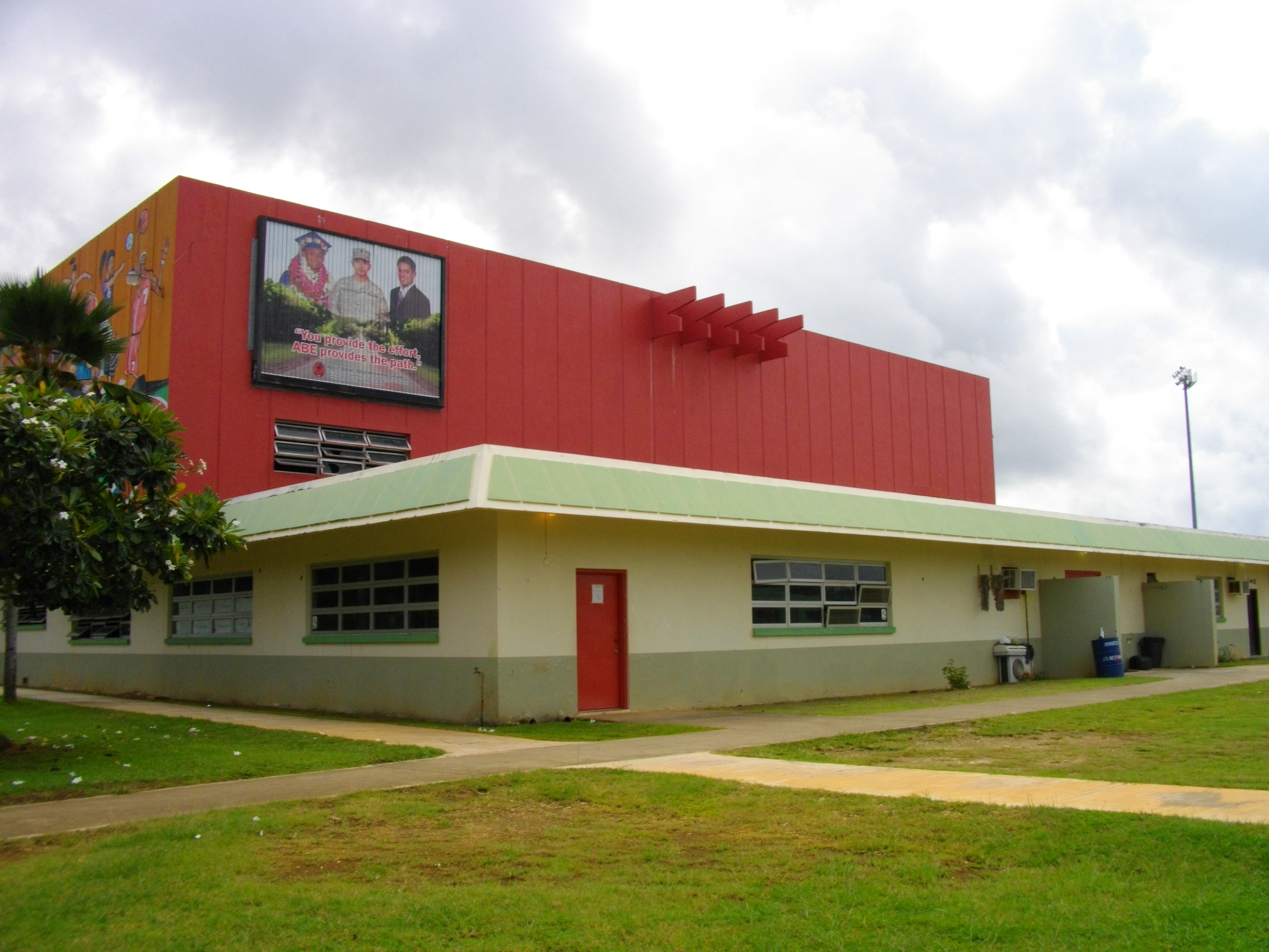 Ada Gymnasium